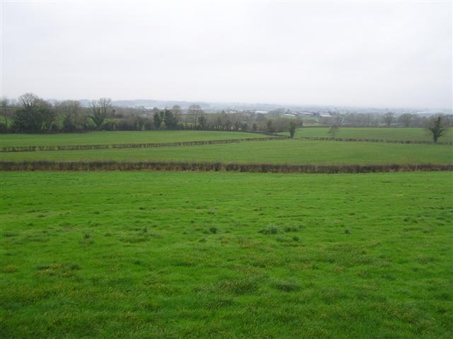 Ardnaglass Townland The northern end of Lough Beg is in the distance